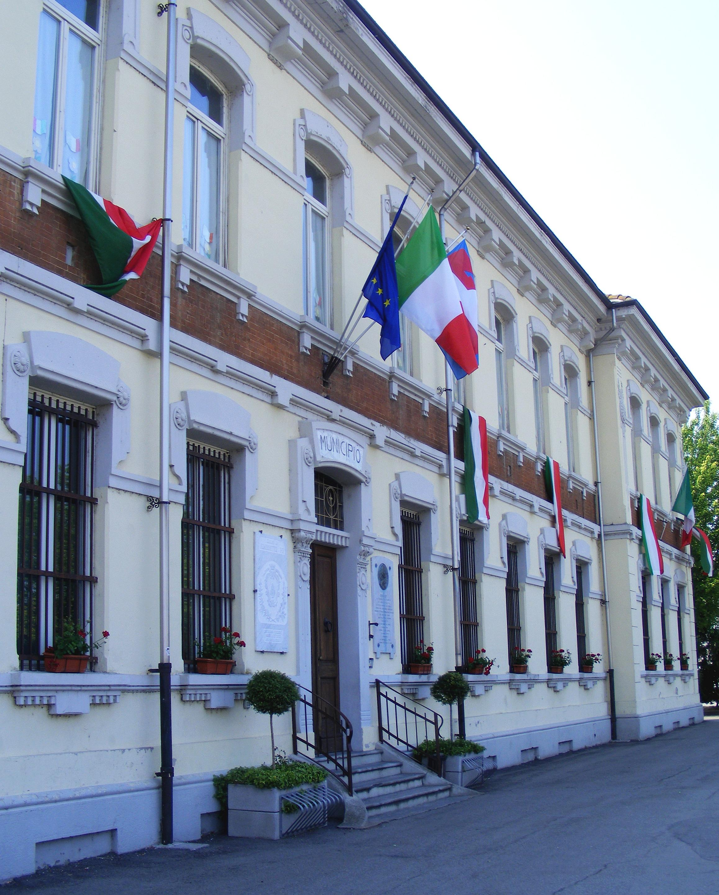 Fontanetto Po (VC, Italy): town hall